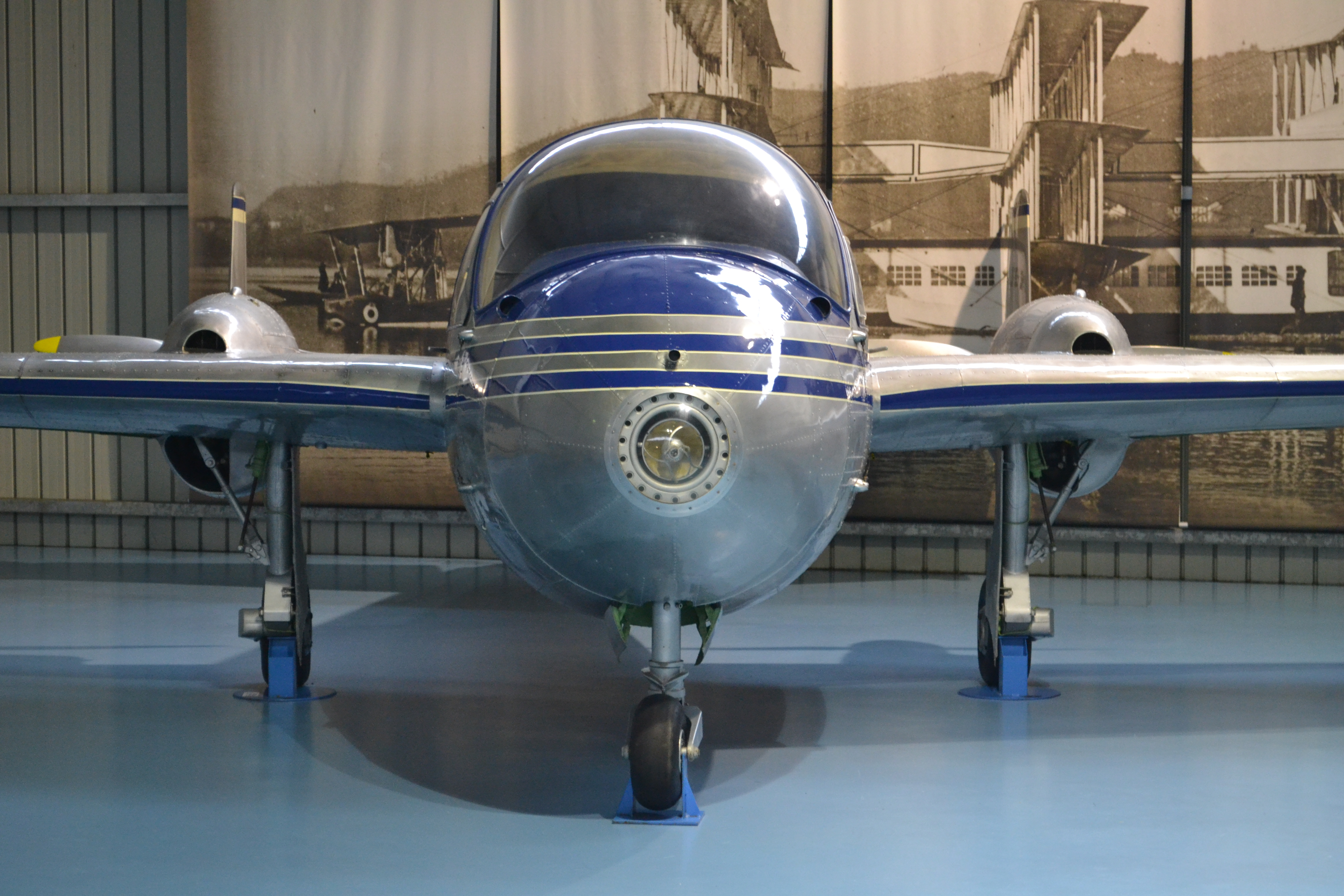 Front view of the Caproni Ca.193 on display at the Gianni Caproni Museum of Aeronautics.